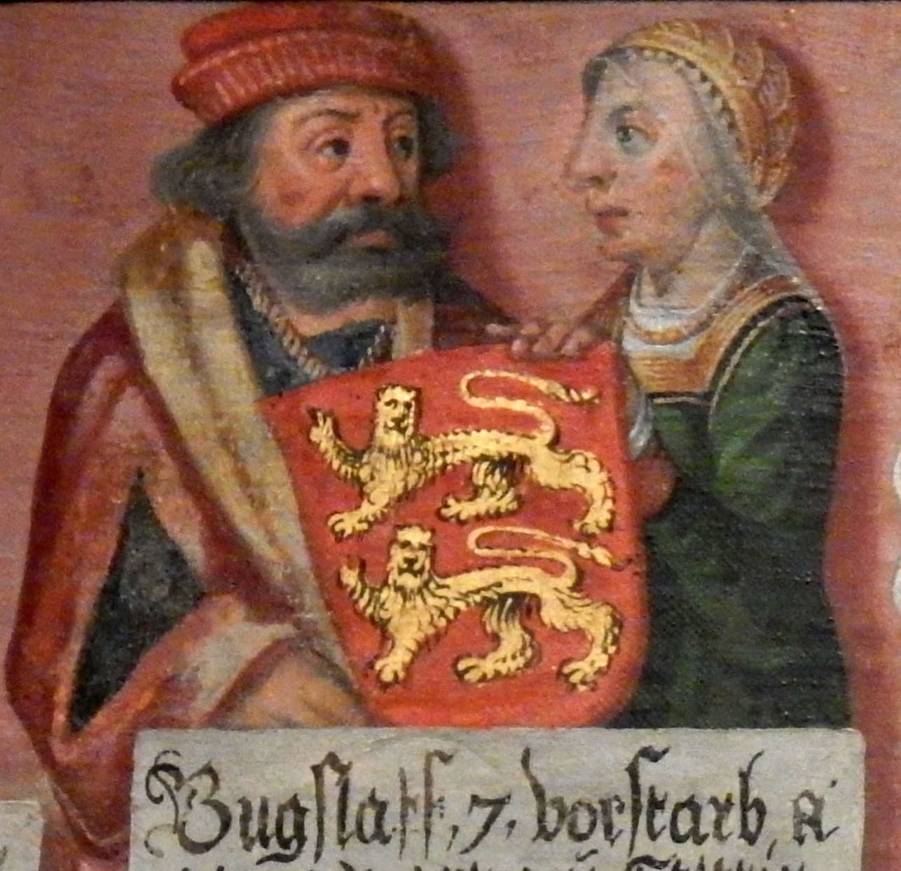 Bogislaw VII. von Pommern-Stettin.